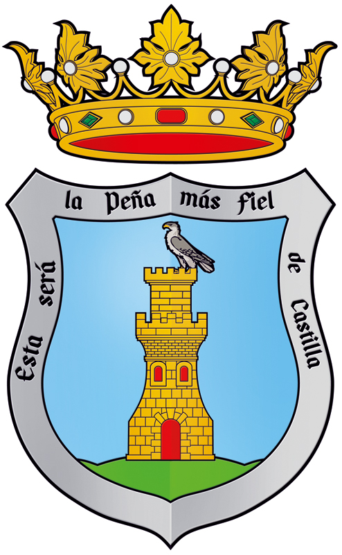 Escudo de Peñafiel (Valladolid, España)